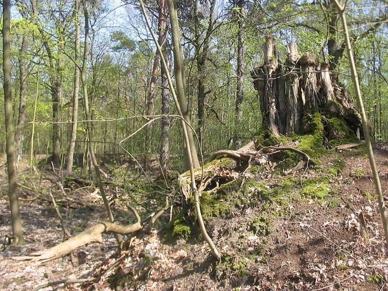 The Murellenberge, the Murellenschlucht and the Schanzenwald (german for: Murellenhill, Murellenravine, Sconceforest) are a hill-landscape from the last gacial period in Berlin-Ruhleben in the district Charlottenburg-Wilmersdorf. It is part of the Teltow-Plateau at its northside in Berlin. In the hills there is the memorial Denkzeichen zur Erinnerung an die Ermordeten der NS-Militärjustiz am Murellenberg (german for: Thought-Signs to commemorate the victims of Nazi military justice at Murellenberg), created by the argentine, in Berlin living, artist Patricia Pisani in 2002.